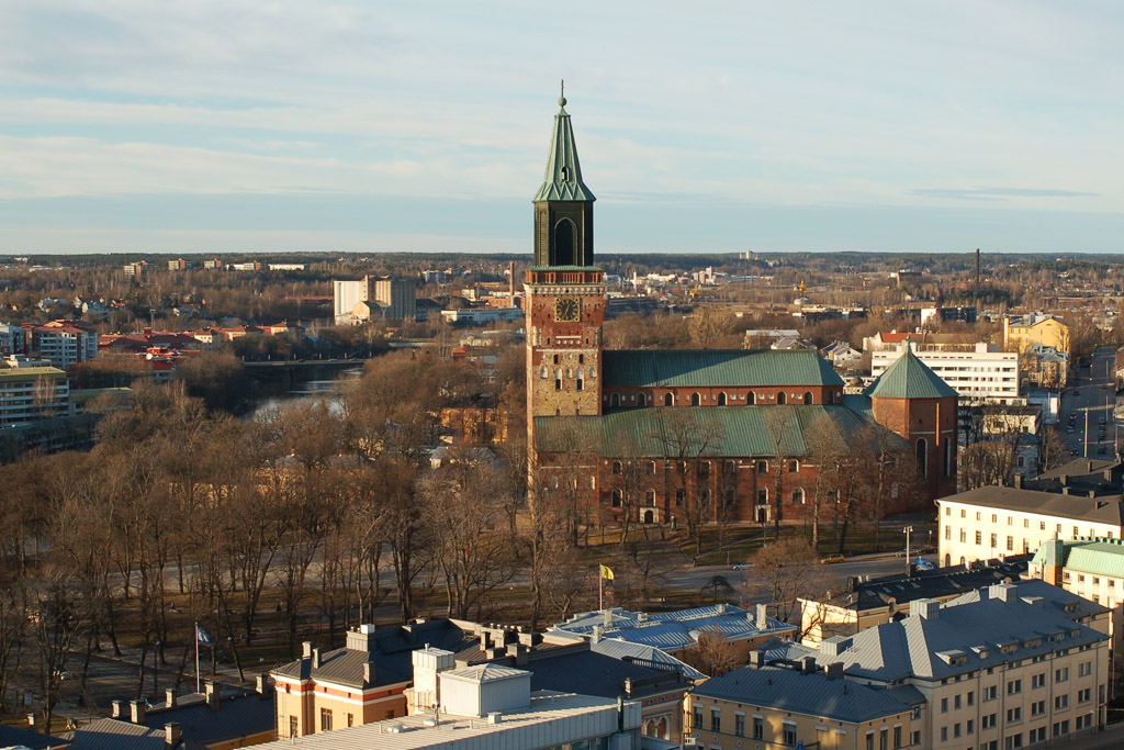 The Cathedral shot from the roof of the old observatory of Turku. Got a rare opportunity to go up there with the photo club I've joined. This is taken slightly below the blue star-decorated orb which crowns the observatory. One fellow's GPS reported 70 meters above sea level.